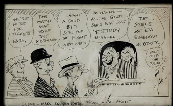 People try to purchase tickets for an upcoming boxing match at Madison Square Garden, only to be told that all the good tickets were sold the previous day - even though the match was only announced that morning. The text in this image should be transcribed and included in the description on this page. See also Inscription . The Google OCR tool may be of use in transcribing images.